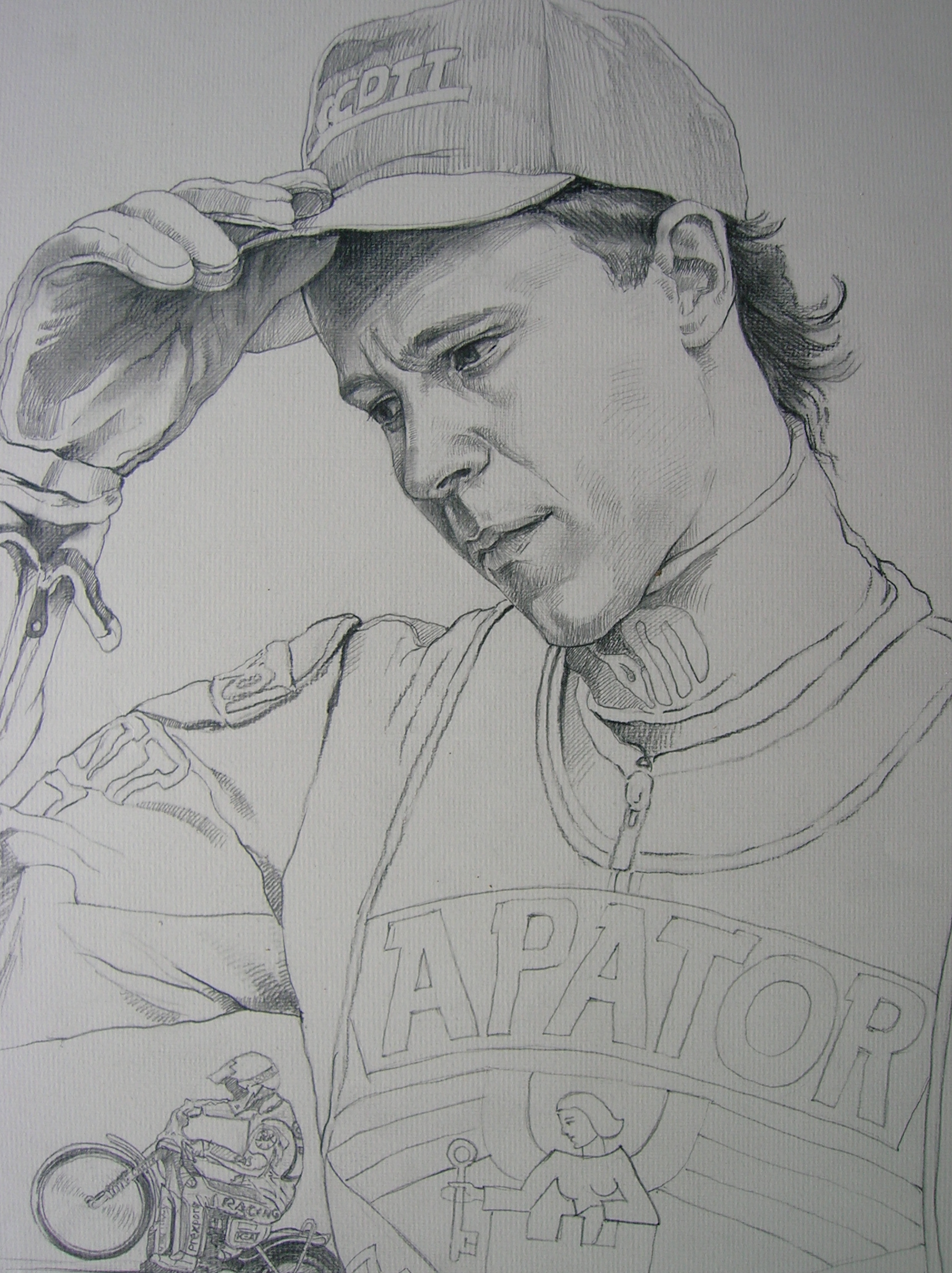 Per Jonsson